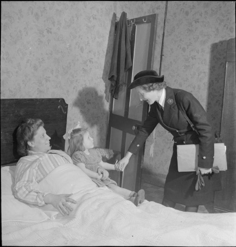 Naval Welfare- the work of the Naval Family Welfare Service, UK, 1945 Chief Wren Nye of the Naval Family Welfare Service arrives to collect a young girl, who will be staying with a neighbour while her mother recovers from an illness. The girl sits on the bed with her mother as Chief Wren Nye leads her by the hand.